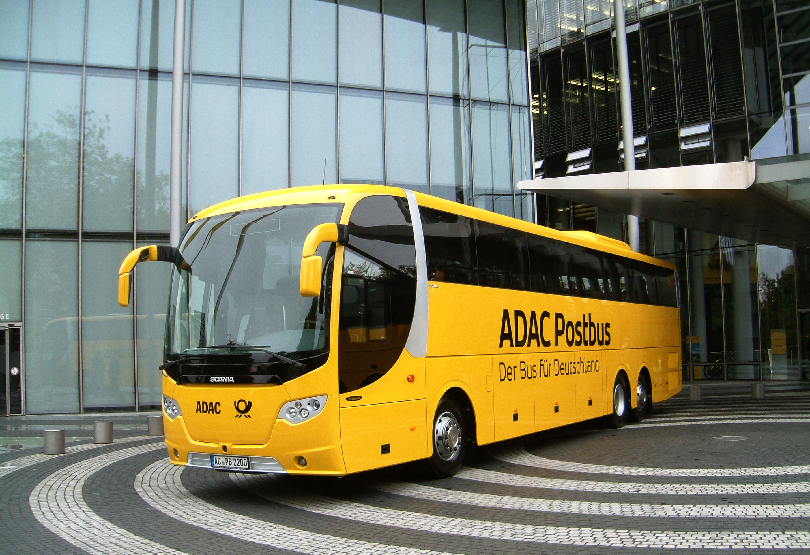 Bus of ADAC and German Post in front of the headquarter of Deutsche Post in Bonn, Germany